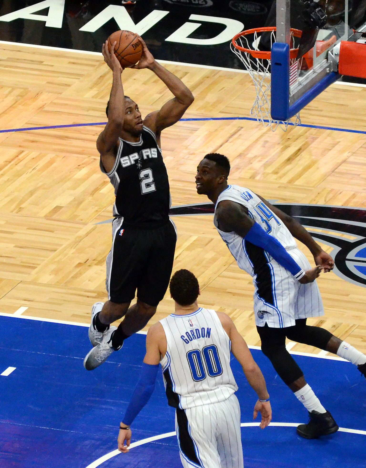 Kawhi Leonard dunking against the Orlando Magic